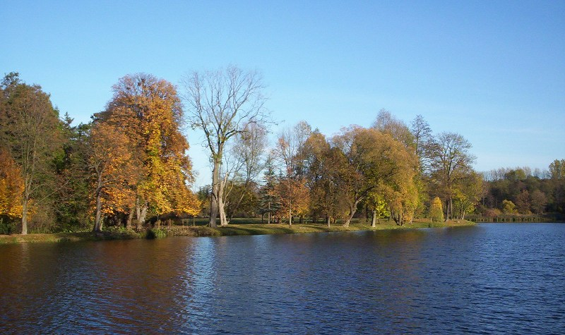 Pond on Pisia Gągolina river in garden near palace in Radziejowice, Poland.